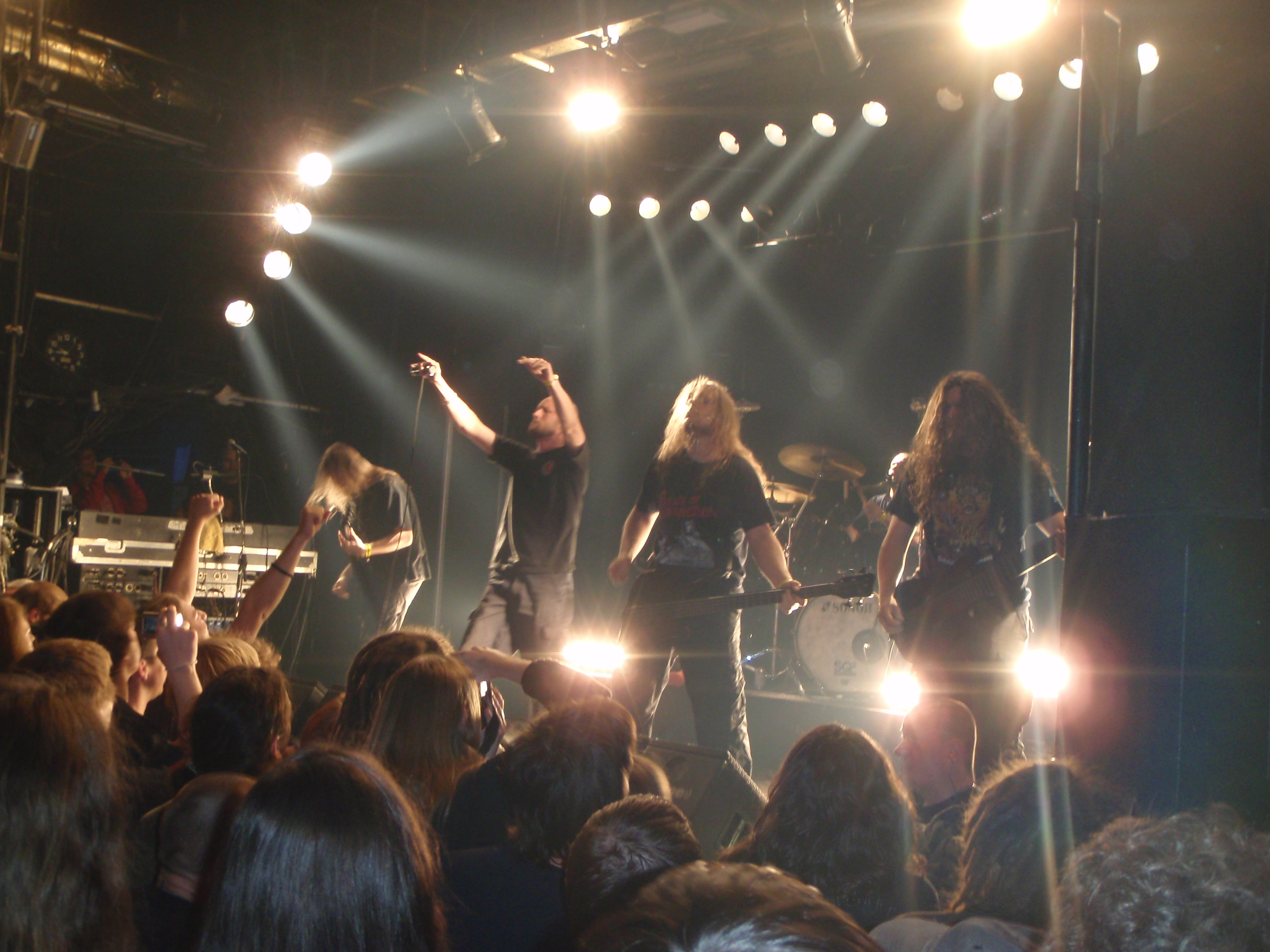 Progressive-metal-band Meshuggah performing live in Vienna, September 18, 2008